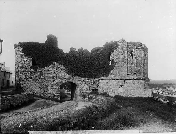 1 negative : glass, dry plate, b&w ; 16.5 x 21.5 cm.